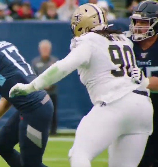 Malcolm Brown 2019. Image from video Titans Mic'd Up vs. Saints (Week 16) | Sounds of the Game, ~ 00:41.